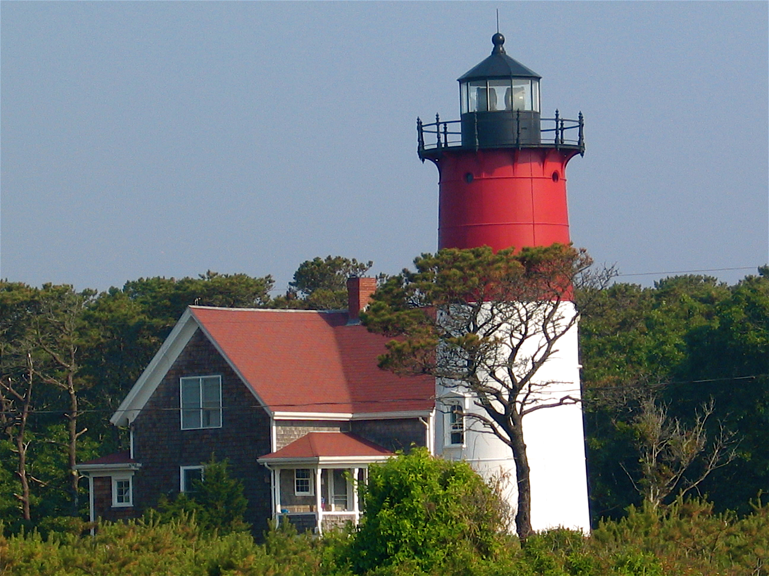 The Beacon